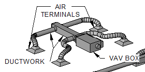 Simple commercial VAV system consisting of VAV box, ductwork and air terminals.